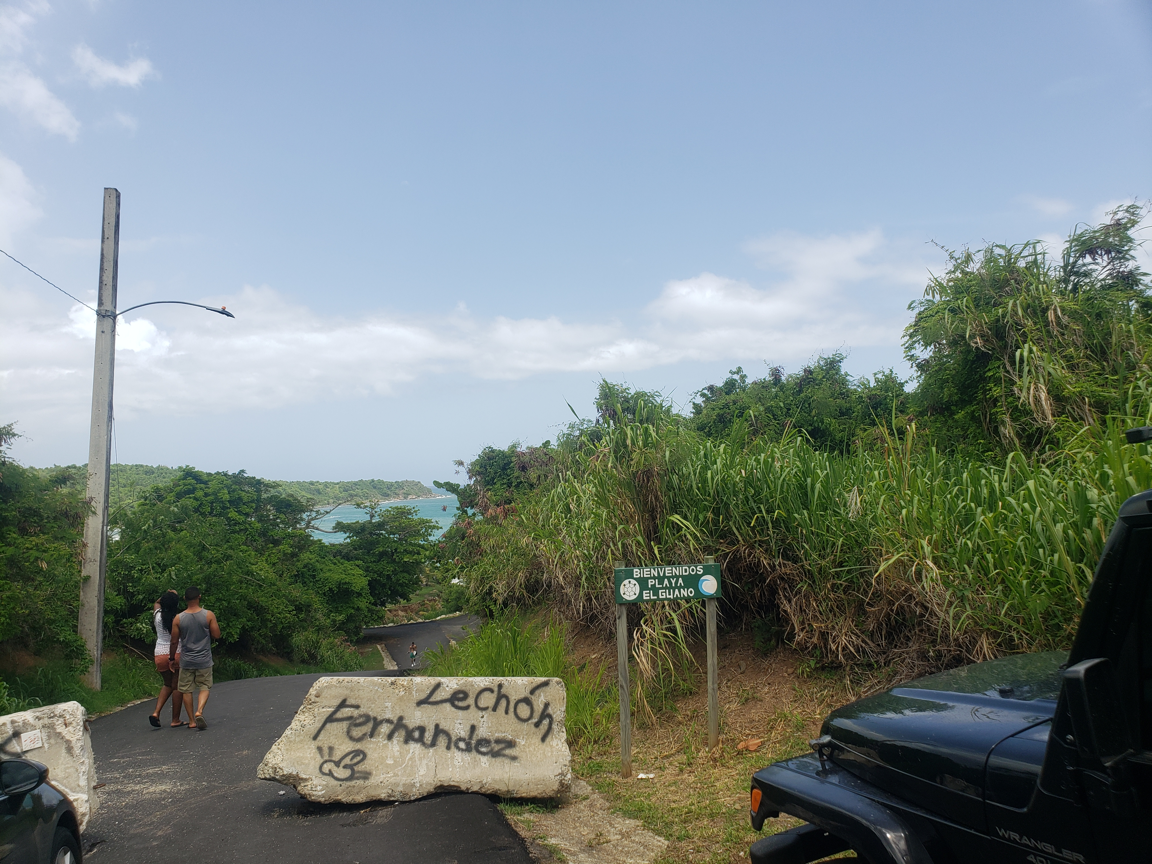 Park the car and walk the rest of the way to Playa El Guano in Camino Nuevo, Yabucoa, Puerto Rico